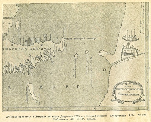 Map of Chukotka and Alaska by Daurkin.